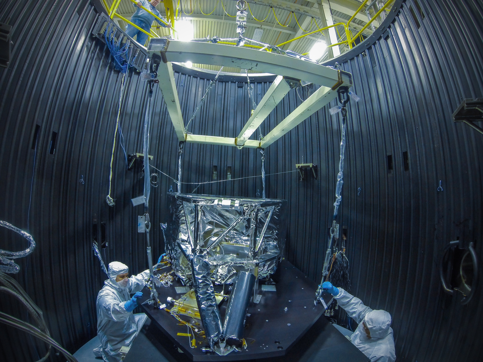 Goddard Technicians Tony Kiem (left) and George Mooney (right) guide the craned structure holding the Webb telescope's Mid-Infrared Instrument or MIRI Shield Environmental Test Unit into place in a cryogenic (cooling) test chamber. This shield will be used to simulate the MIRI instrument during prelaunch testing to verify that the MIRI cooling system will function properly in space. Goddard Safety Engineer Richard Bowlan watches from above. Image Credit: NASA/Chris Gunn NASA image use policy. NASA Goddard Space Flight Center enables NASA’s mission through four scientific endeavors: Earth Science, Heliophysics, Solar System Exploration, and Astrophysics. Goddard plays a leading role in NASA’s accomplishments by contributing compelling scientific knowledge to advance the Agency’s mission. Follow us on Twitter Like us on Facebook Find us on Instagram